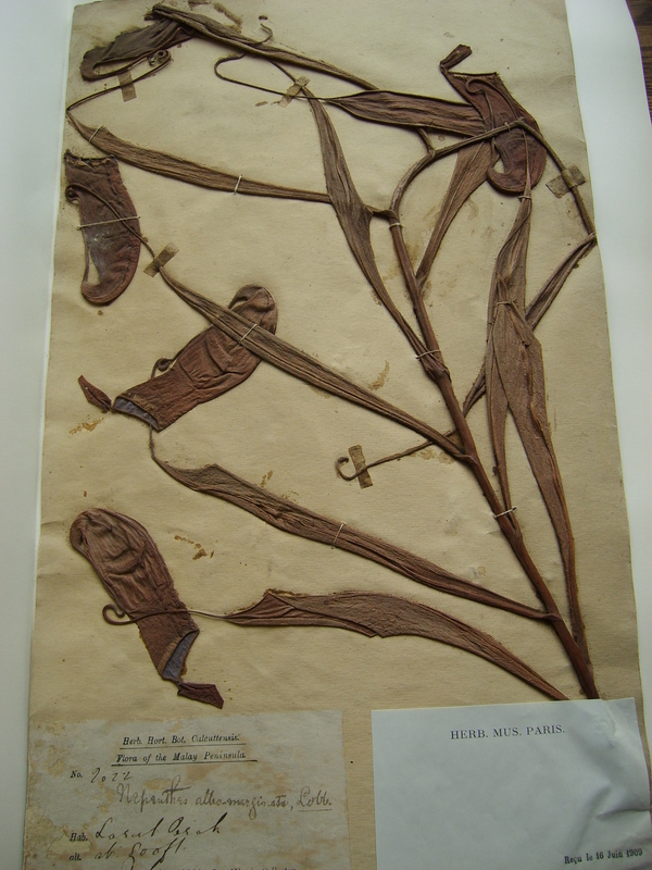 Herbarium specimen of Nepenthes albomarginata deposited at the Museum National d'Histoire Naturelle in Paris, France.